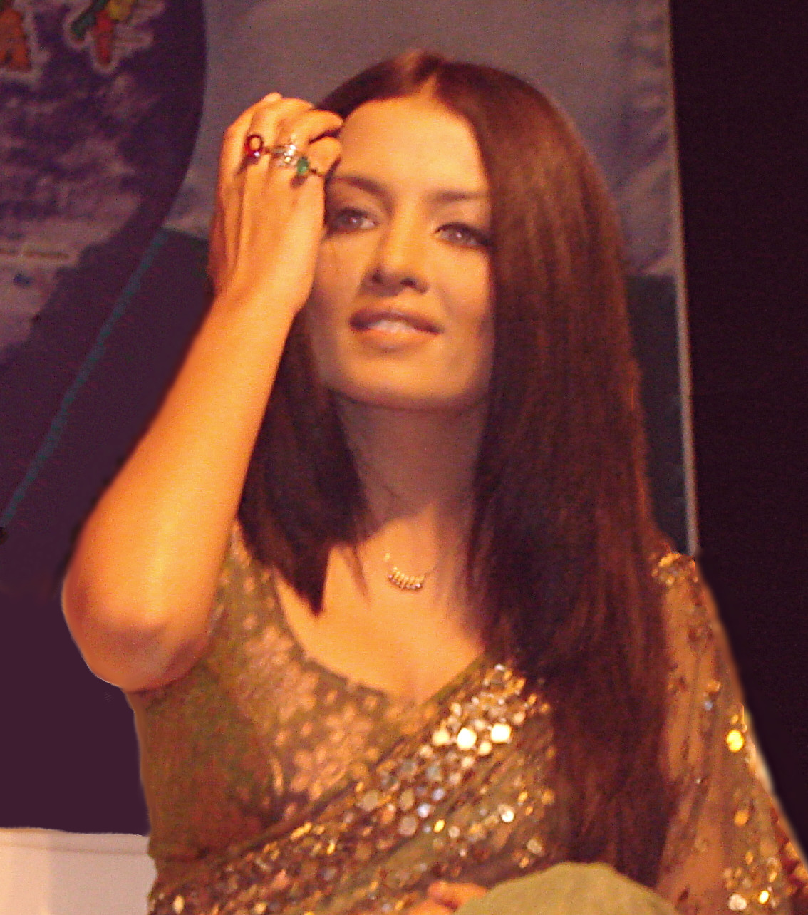 Celina Jaitley - Bollywood Actress at LA